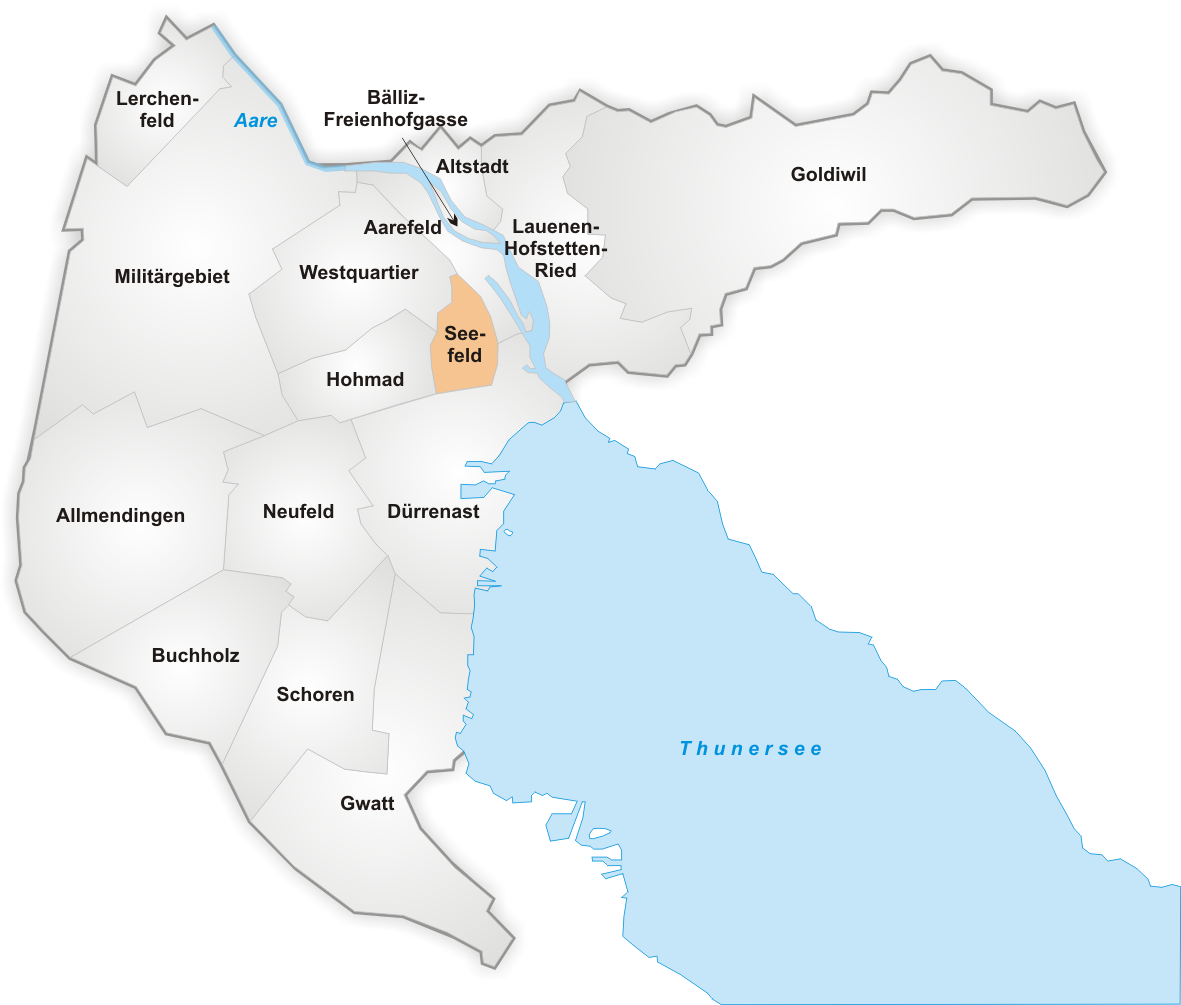 Thuner Quarter Seefeld